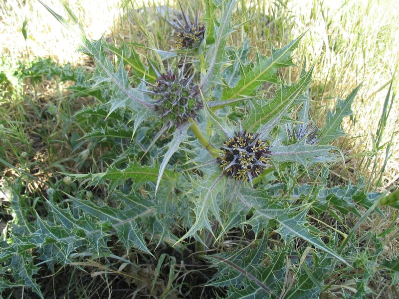 A Tumble Thistle or Galgal, near the Zavitan river, Occupied Golan Heights, Syria